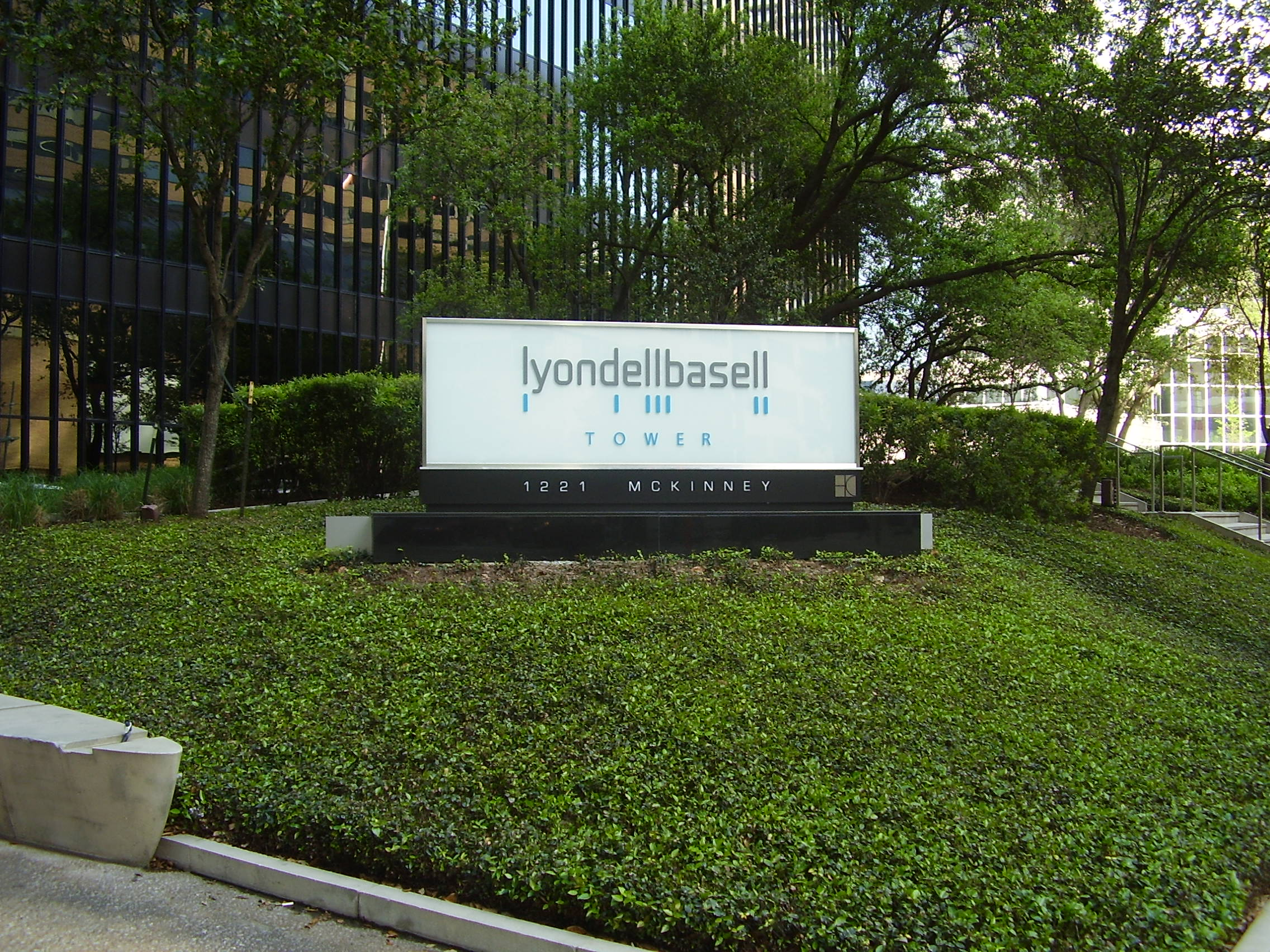 LyondellBasell Tower (former 1 Houston Center)